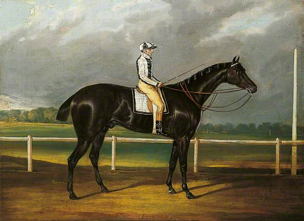 Painting of racehorse Jerry by unknown artist. ca. 1824. Artist dead for over 100 years.